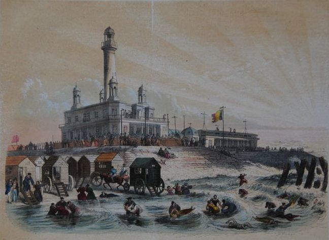 Bathing in Ostend. Coloured wood engraving by W. Brown after a drawing by Hendrickx (part of Vues pittoresques de la Belgique et de ses monuments les plus remarquables, dessinées et gravées sur bois par les premiers artistes de Bruxelles, Brussels-Leipzig, C. Muquardt, s.d.: 24 lithos, 33,7 x 25 cm)